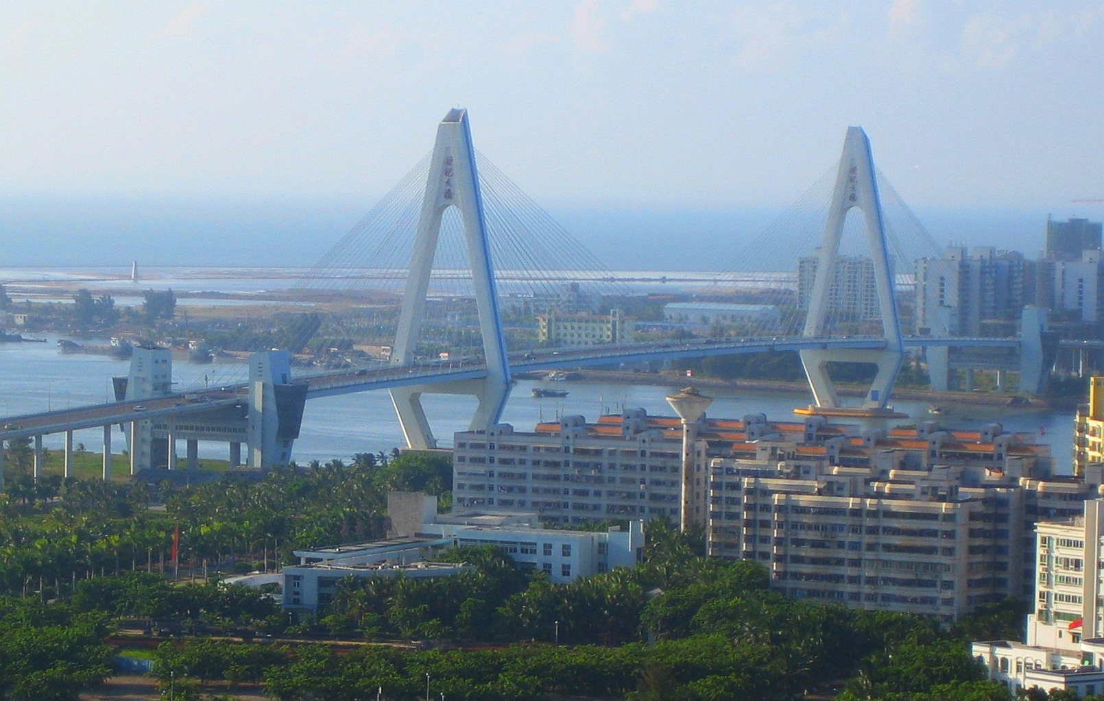 Haikou Century Bridge crossing Haidian River, Haikou, Hainan, China, with view of Haidian island